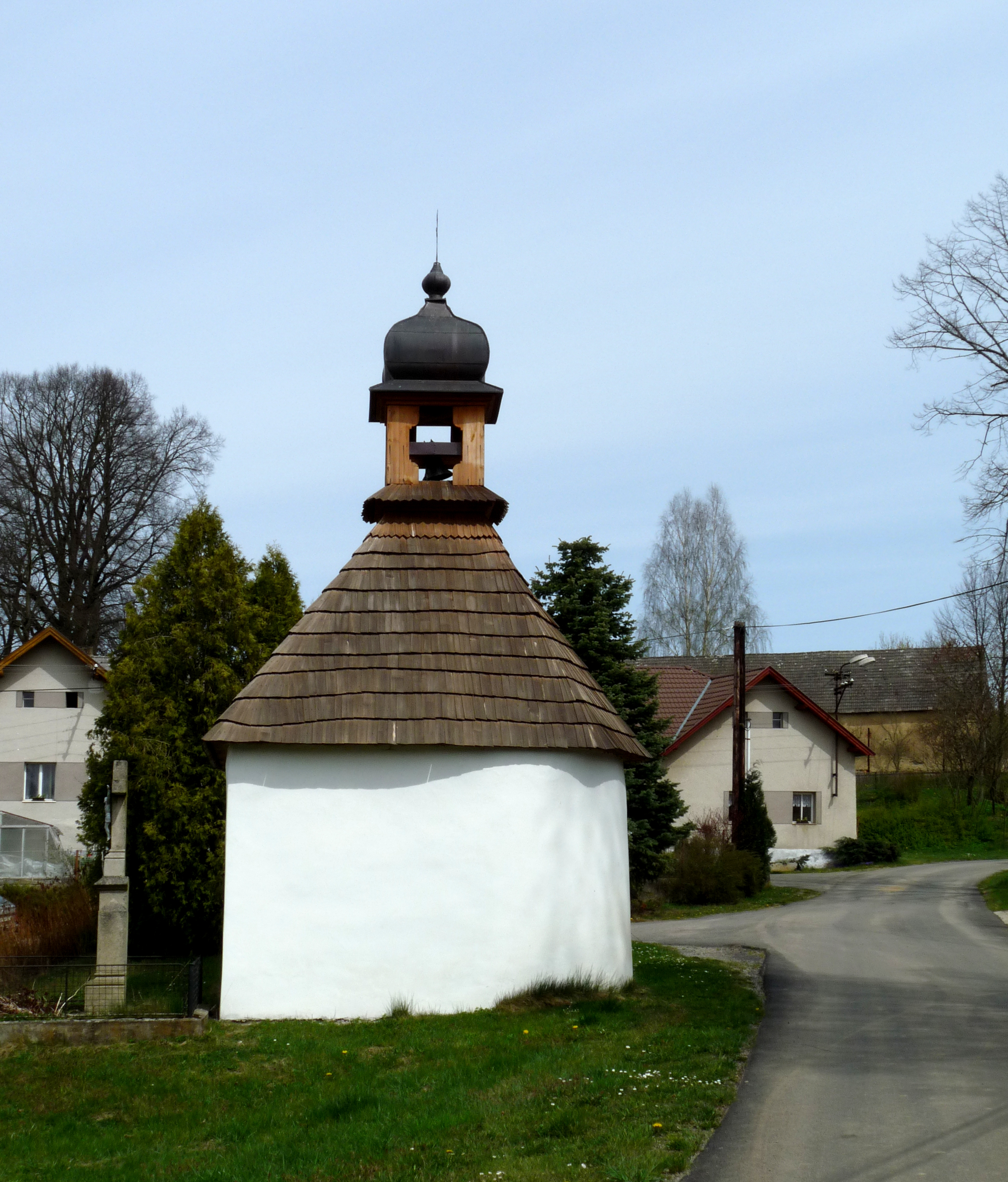 Chapel in the village of Čakovice (Pelhřimov), part of the town of Pelhřimov, Pelhřimov District, Vysočina Region, Czech Republic.